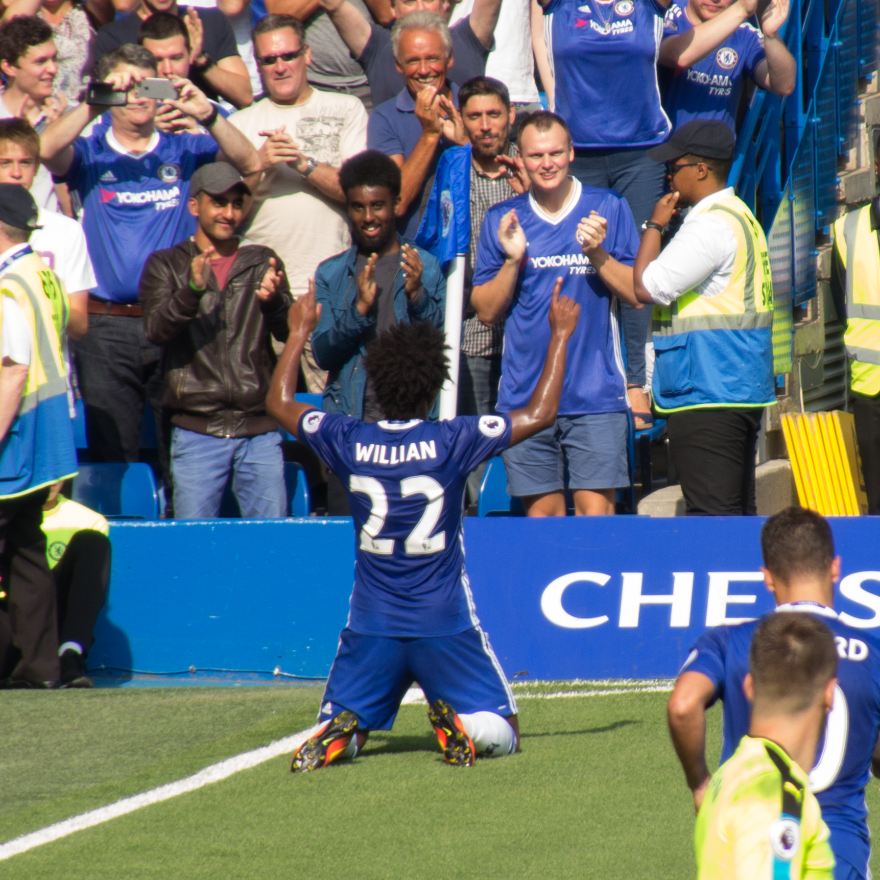 Chelsea 3 Burnley 0 27.8.16